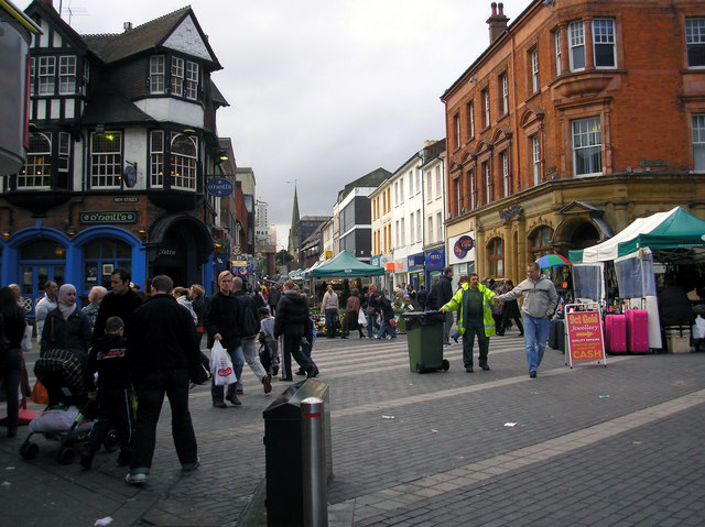 Station Road, Redhill To the left is High Street, to the right is London Road. All effectively pedestrianised.